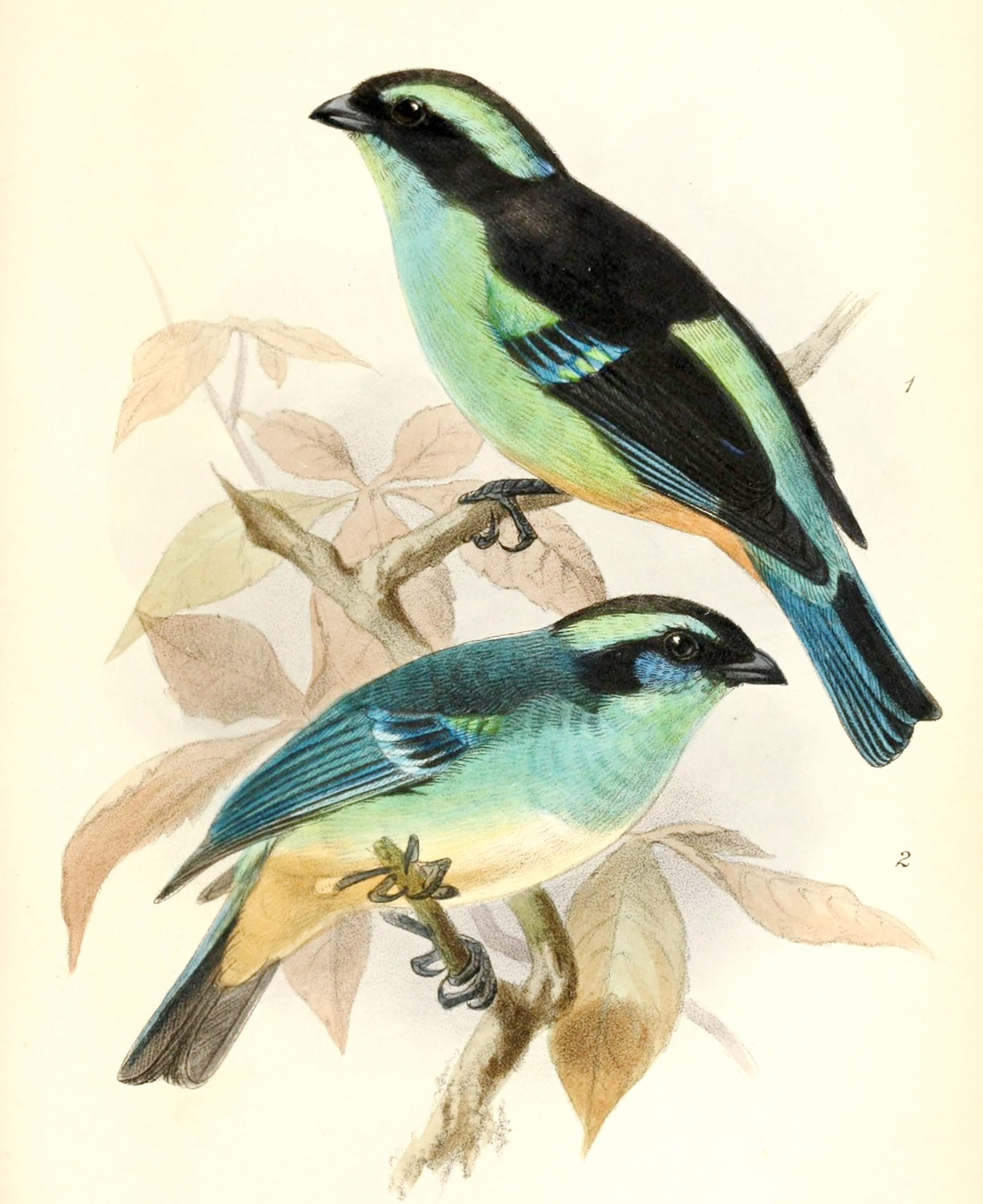 « Calliste melanotis » = Tangara cyanotis melanotis (Subspecies of Blue-browed Tanager) « Calliste cyanotis » = Tangara cyanotis cyanotis (Subspecies of Blue-browed Tanager)